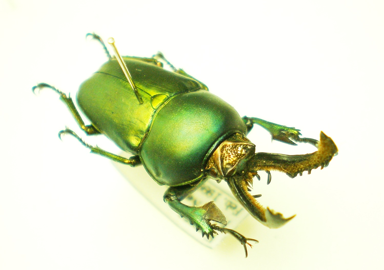 Lampriminae Lampriminae